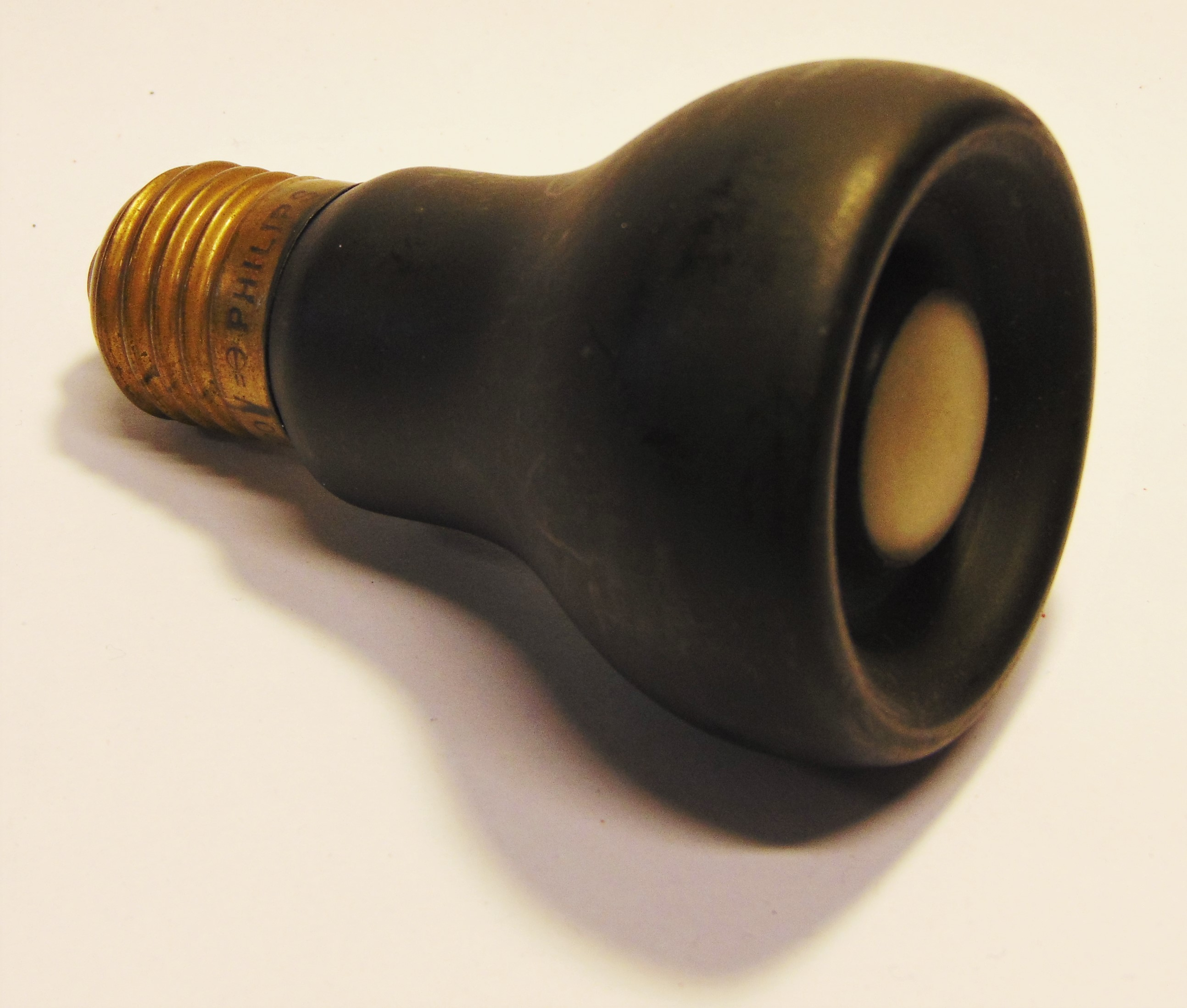 Philips Blackout lightbulb, world war II in the Netherlands. Photographed in the collection of the National Liberation Museum 1944-1945, the Netherlands, archive number